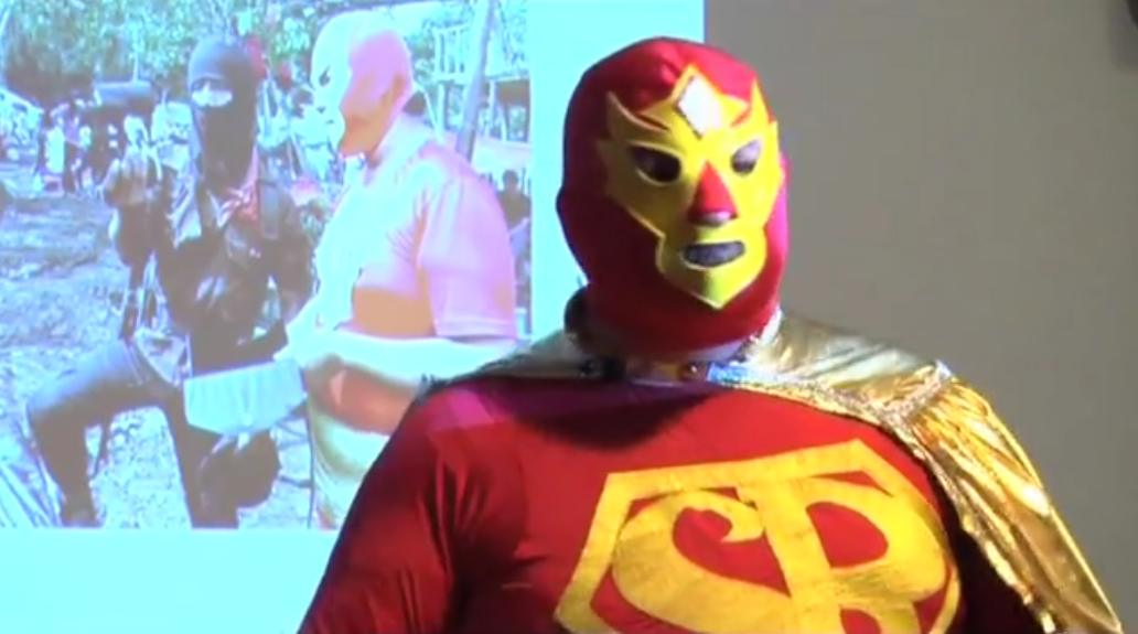 Superbarrio delivering a lecture at the Influencers Festival.